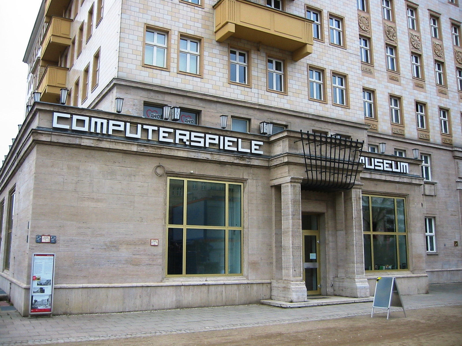 Computer Game Museum in Berlin-Friedrichshain (Germany)